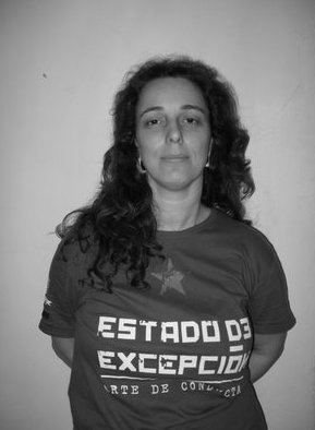 CUBAN ARTIST PLASTIC Tania Bruguera THIS TUESDAY 31 MARCH 2009 (TAKEN BY THE LENS OF A BLOGGER IN HAVANA CITY HAVANA CUBA GALLERY) PHOTO: PL.